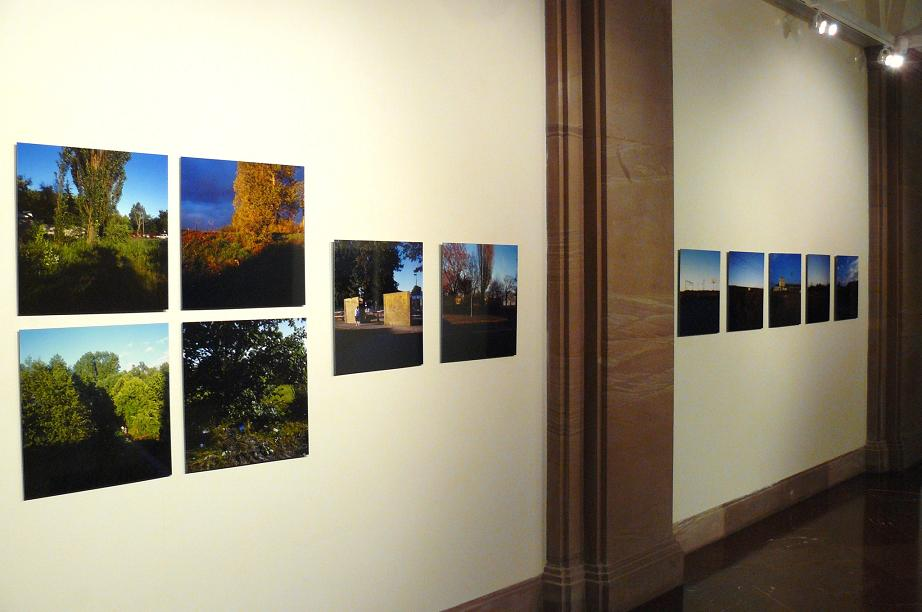 Art in Poznan. Foto exhibition of Ireneusz Zjezdzalka, Poznan, 2009.